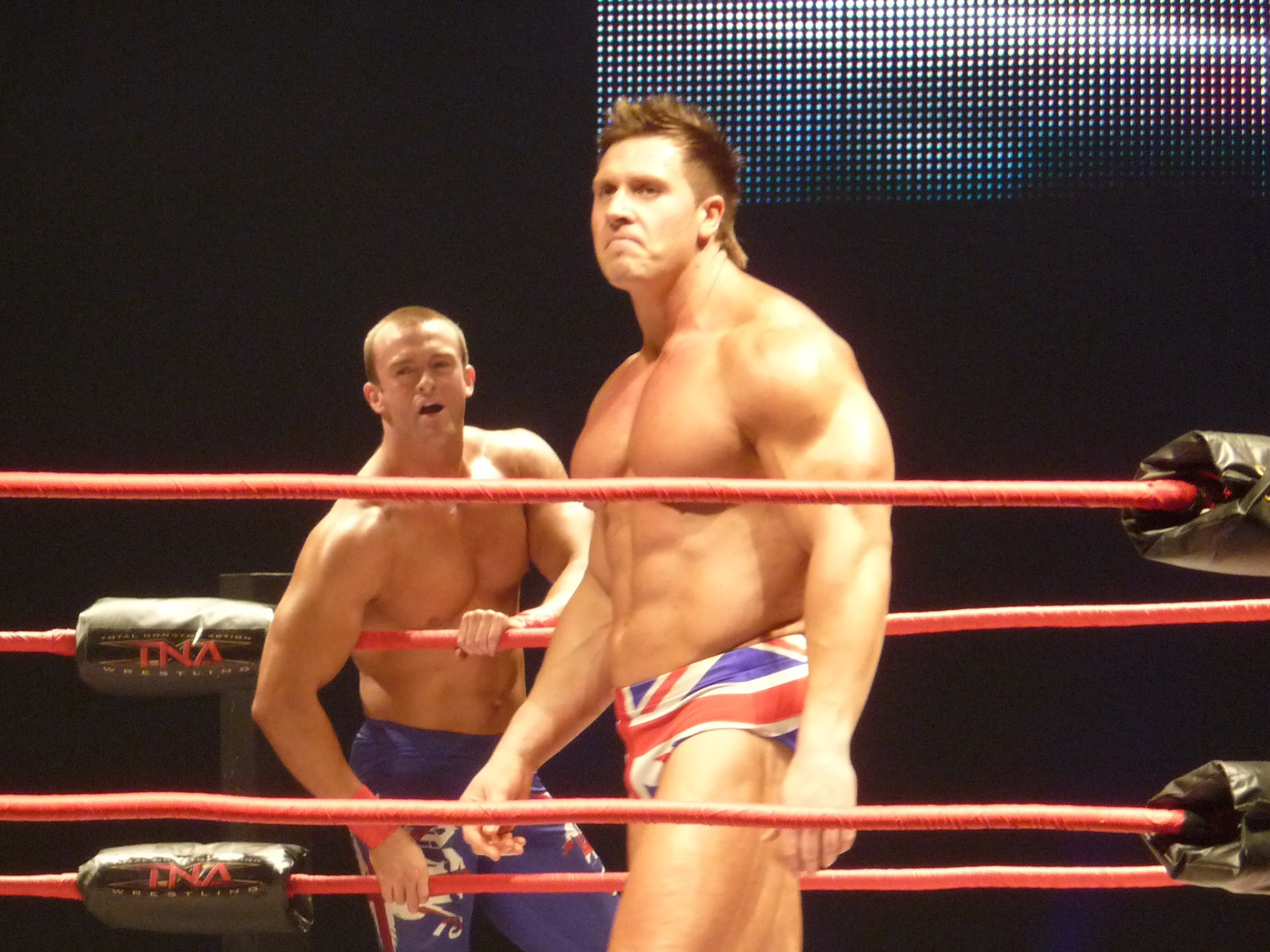 Professional wrestling The British Invasion (Brutus Magnus, left, and Rob Terry, right) at a TNA show in Wembley on January 30, 2010.